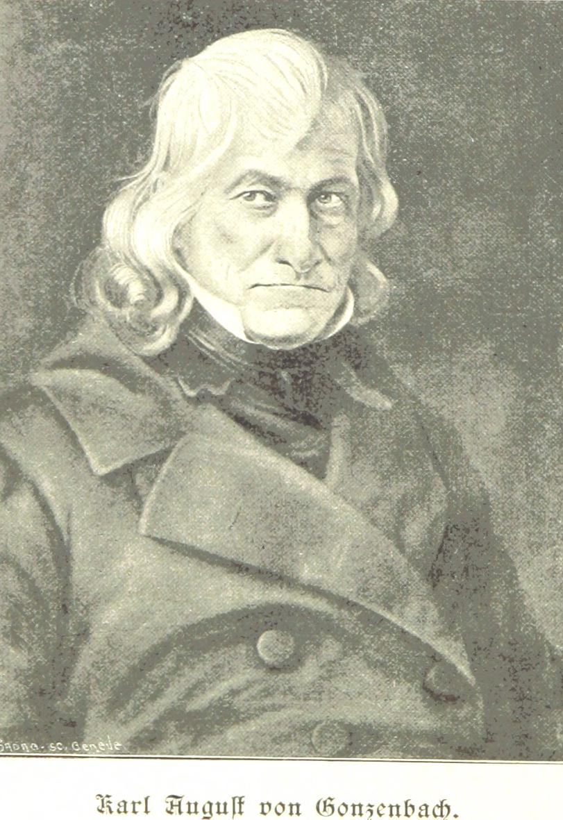 August von Gonzenbach Image taken from: Title: "Die Schweiz im neunzehnten Jahrhundert. Herausgegeben von schweizerischen Schriftstellern unter Leitung von P. Seippel" Author: SEIPPEL, Paul. Shelfmark: "British Library HMNTS 9305.h.2." Volume: 03 Page: 118 Place of Publishing: Lausanne Date of Publishing: 1899 Issuance: monographic Identifier: 003330970 Explore: Find this item in the British Library catalogue, 'Explore'. Download the PDF for this book (volume: 03) Image found on book scan 118 (NB not necessarily a page number) Download the OCR-derived text for this volume: (plain text) or (json) Click here to see all the illustrations in this book and click here to browse other illustrations published in books in the same year.